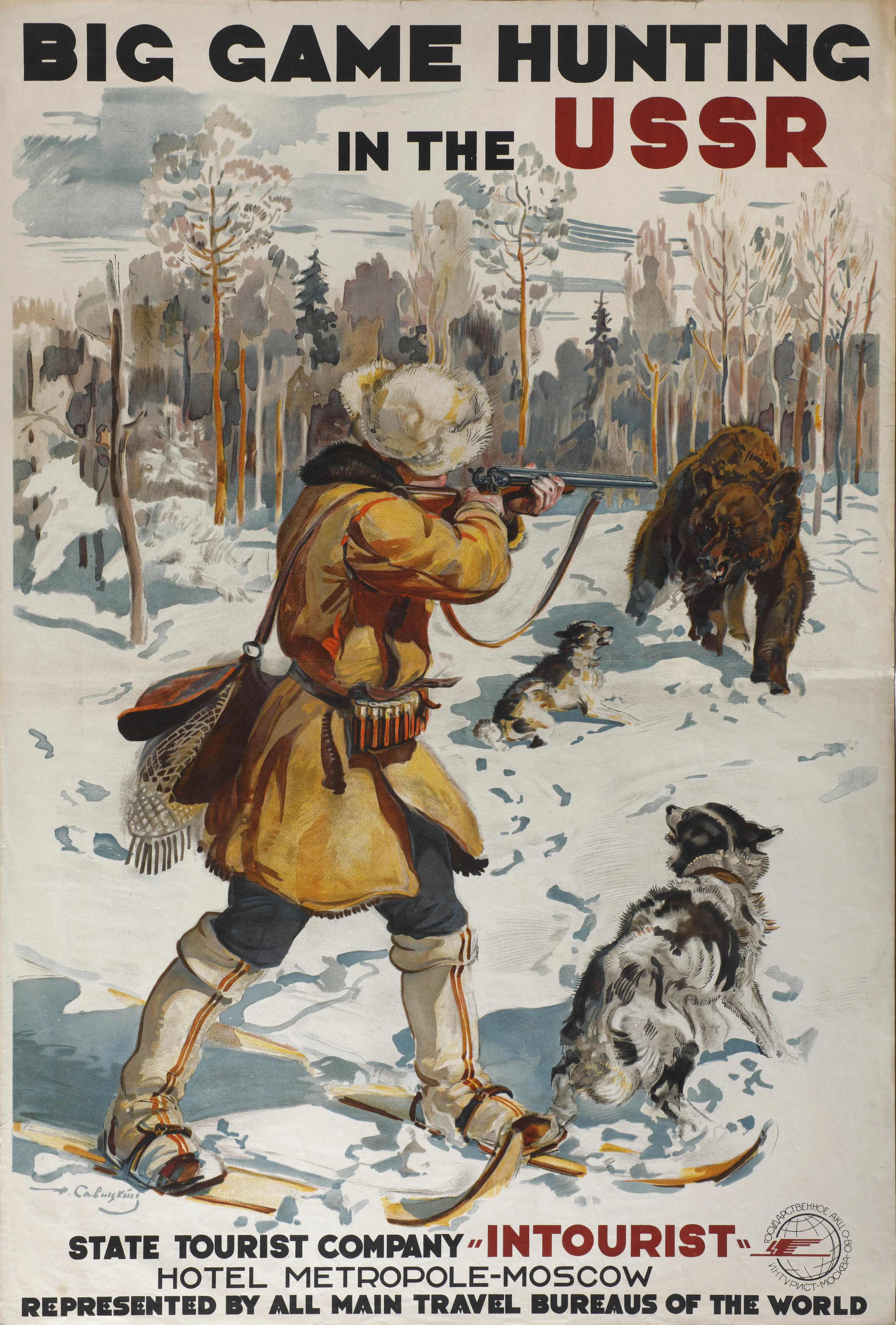 Advertising poster of Intourist